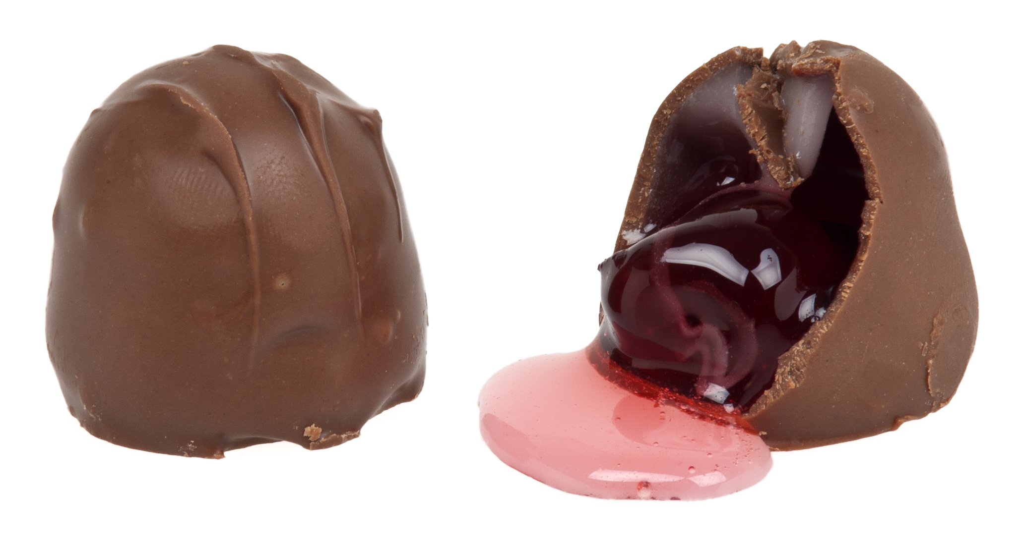 A whole and split Cella chocolate-covered cherries.